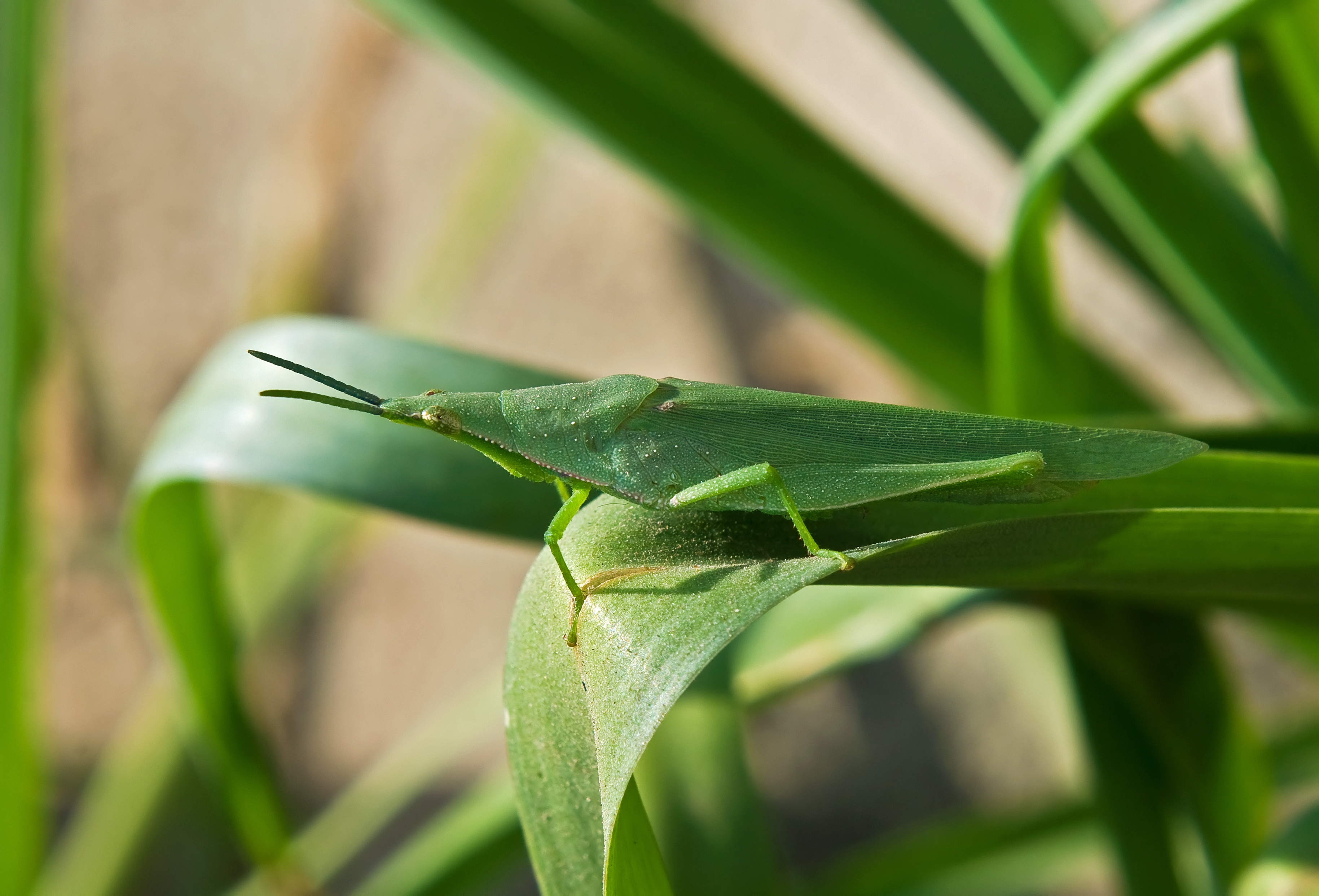 Grasshopper Atractomorpha lata male. Taken at Burdwan, West Bengal, India.